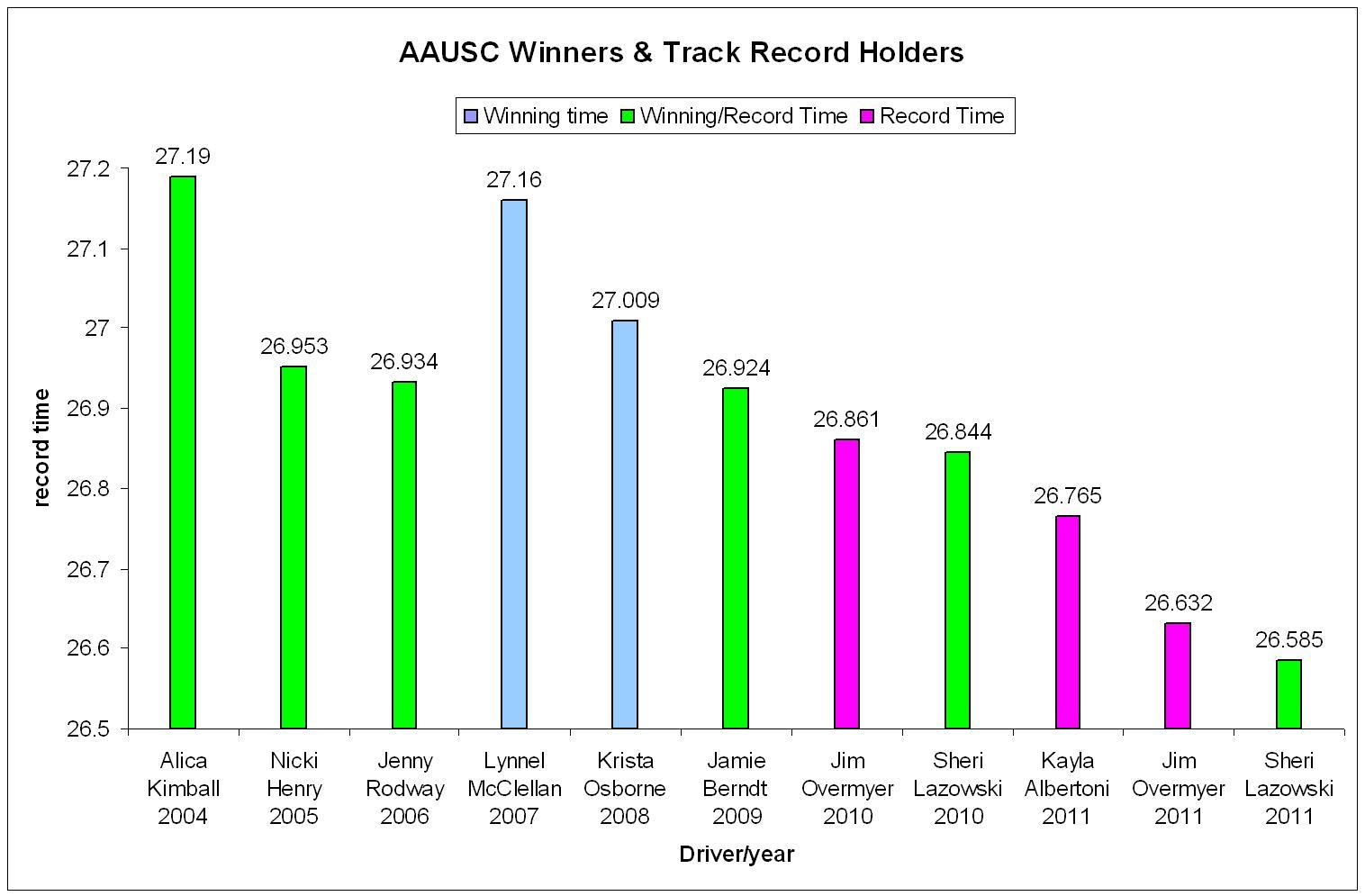 a graph showing winning drivers, record breaking drivers and drivers who were both for the AAUSC race